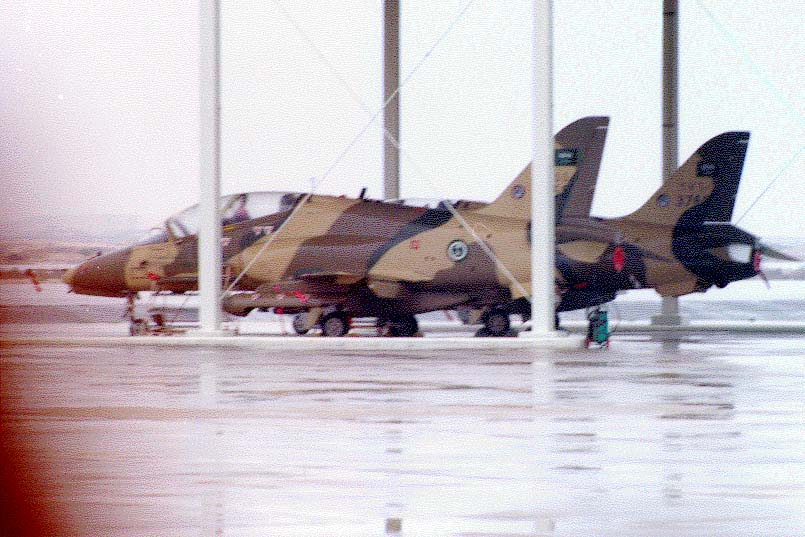 Royal Saudi Air Force BAe Hawk under ready shelter; left rear view. King Abdulaziz Royal Saudi Air Base flight line and 'Half-Moon Bay' Rest and Recreation Center, 14 January 1991, XVIII Airborne Corps History Office photograph by SPC Randall R. Anderson, DS-F-114-04.